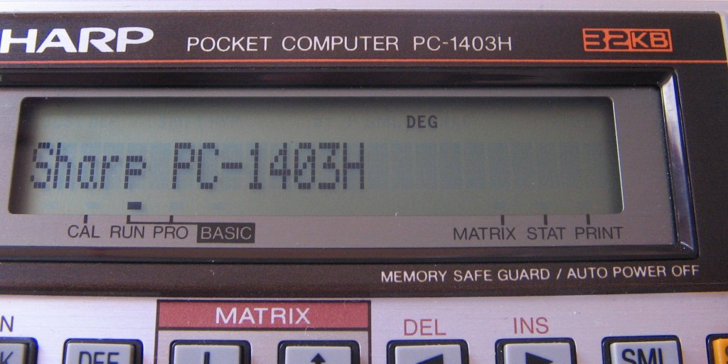 display of a Sharp PC-1403H